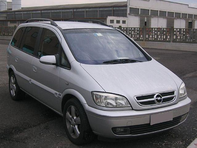 Opel Zafira A